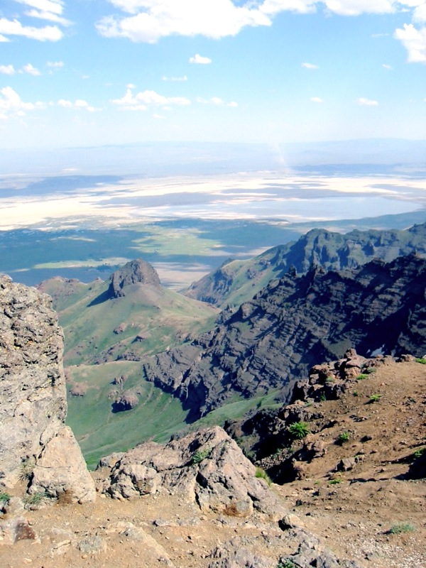 Steens Mtn, view from the top towards the Alvord Desert